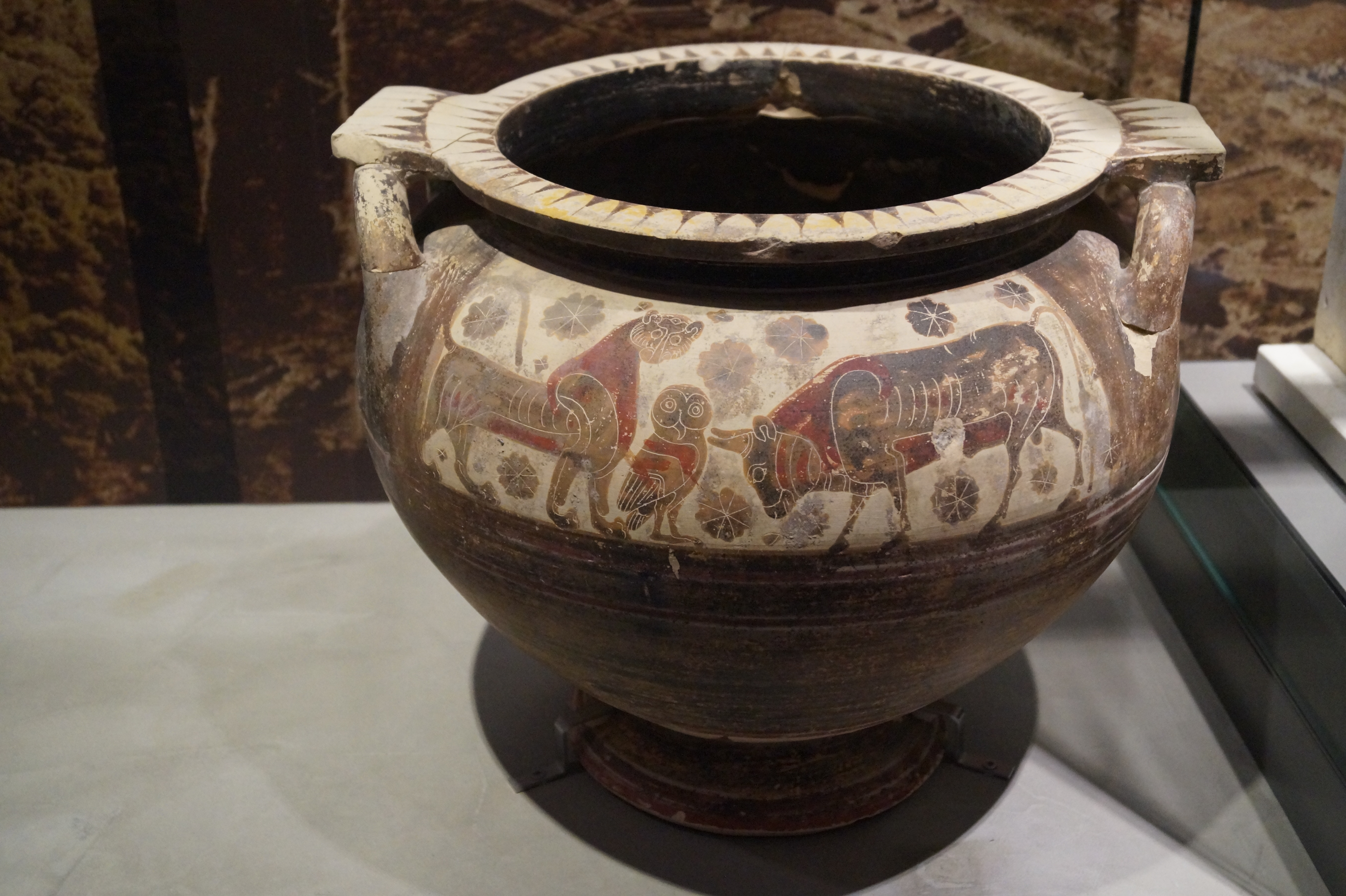 Archaeological Museum of Ancient Corinth: Corinthian krater from Poseidonia (6th cent. BC)